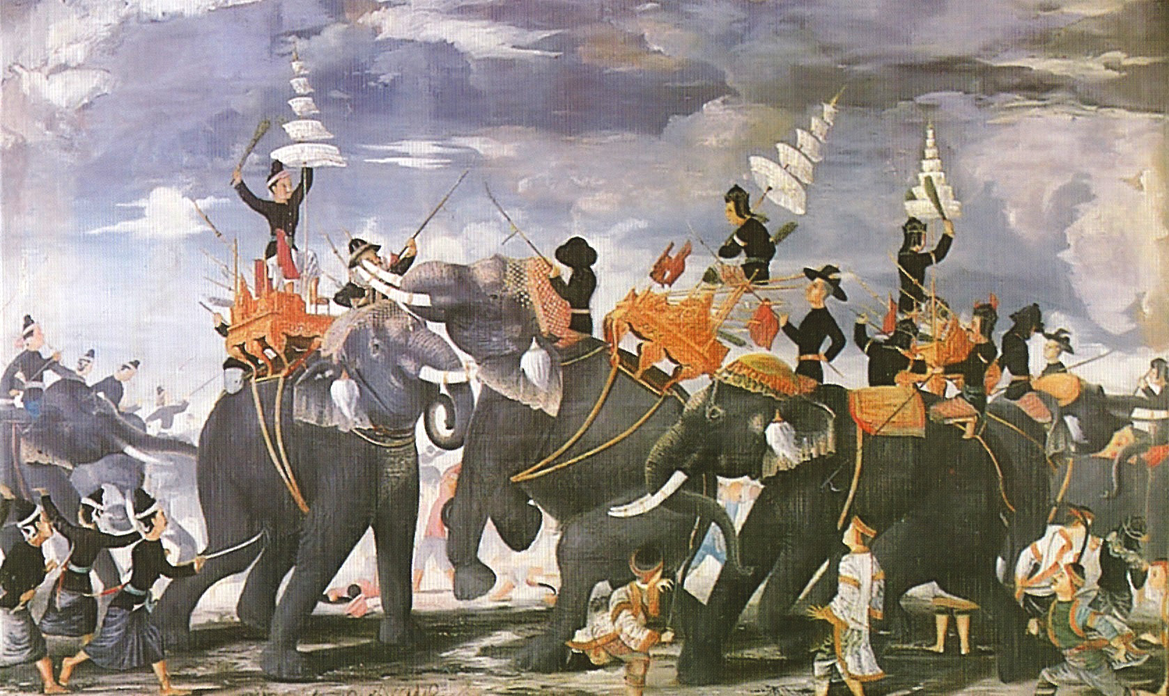 Painting of the Battle between Queen Suriyothai and the Viceroy of Prome in the Burmese-Siamese War of 1548-49. Painted 400 years later.